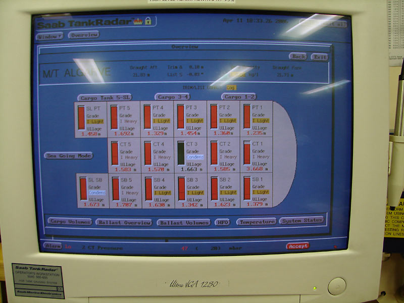 Tank discharge on VLCC Algarve